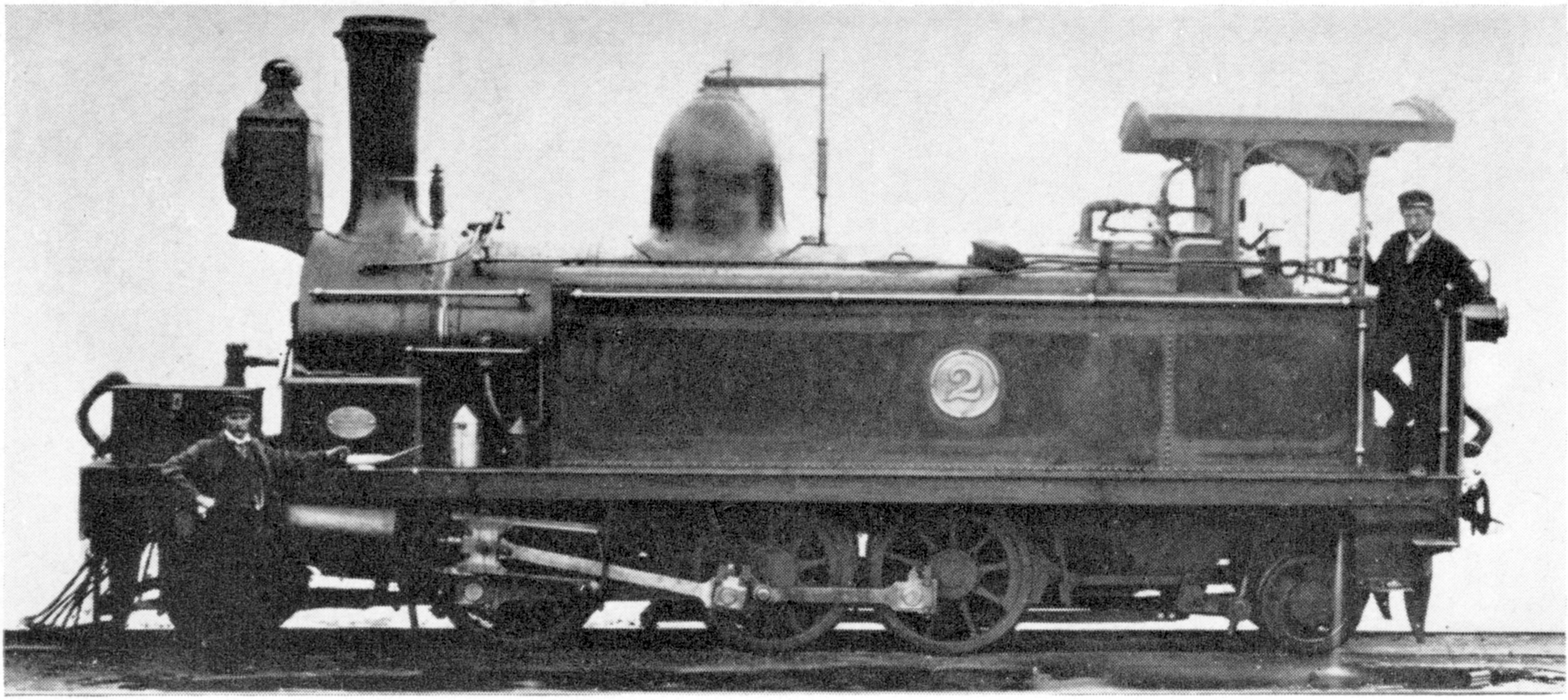 Cape Government Railways 2nd Class no. 2 of 1875 (2-6-2T or 2-6-2TT, tender optional)